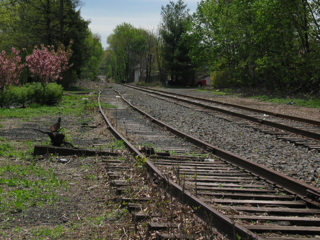 Rarely used railway runs through Nutley, NJ. Once pat of Erie Railroad Newark Branch later Conrail/Norfolk Southern (Newark Industrial)